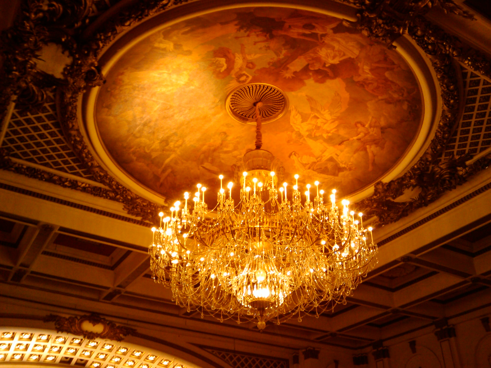 A view of the crystal chandelier located in Springer Auditorium of Music Hall, Cincinnati, Ohio, USA.